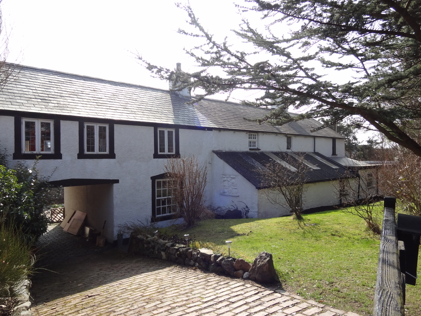 Faenol Isaf farmhouse, Tywyn